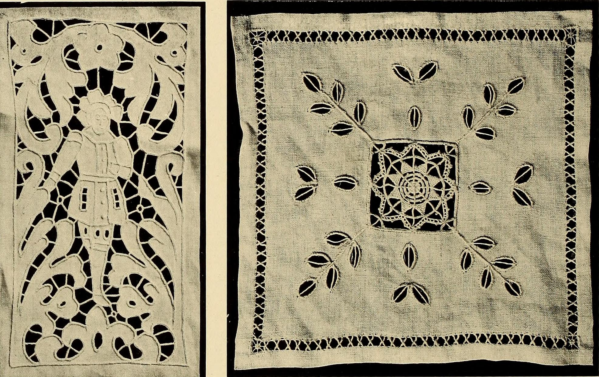 Title: Decorative textiles; an illustrated book on coverings for furniture, walls and floors, including damasks, brocades and velvets, tapestries, laces, embroideries, chintzes, cretonnes, drapery and furniture trimmings, wall papers, carpets and rugs, tooled and illuminated leathers Year: 1918 (1910s) Authors: Hunter, George Leland, 1867-1927 Subjects: Embroidery Tapestry Textile fabrics Lace and lace making Wallpaper Decoration and ornament Publisher: Philadelphia and London, J. B. Lippincott company Grand Rapids, The Dean-Hicks company Text Appearing Before Image: 1 jfSHBBF Plate III—Swiss brussels lace motifs for curtains Text Appearing After Image: Plate IV—On the right, broderie anglaise (pierced work, which is the simplest form of cut-work) with reticella centre; on the left, cutwork figure of man EXAMPLES OF REAL LACE MOTIFS 86